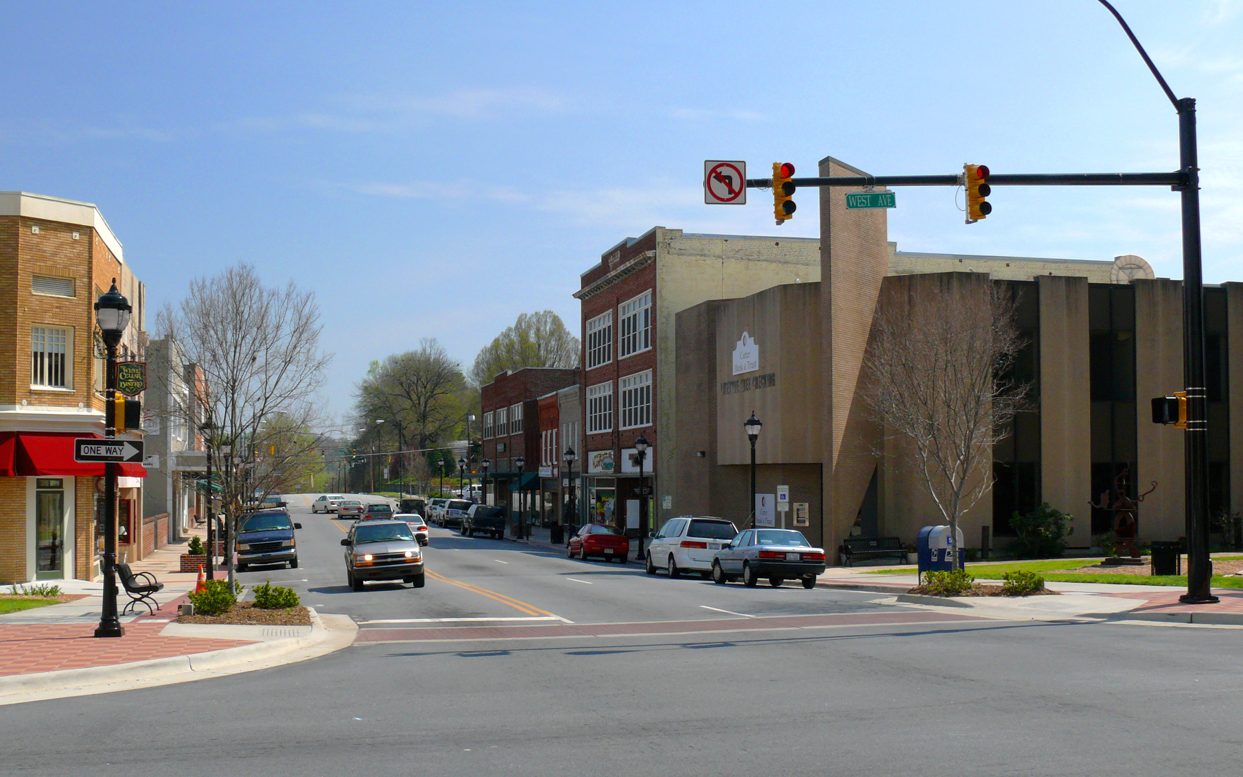 Looking south down Main Street from the town square in downtown Lenoir.Photo taken with a Panasonic Lumix DMC-FZ50 in Caldwell County, NC, USA.